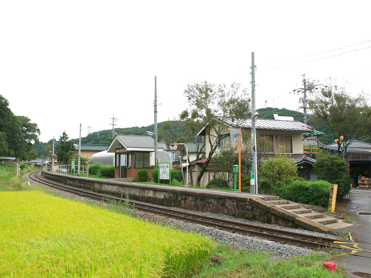 JR East Koumi line Takaiwa station.